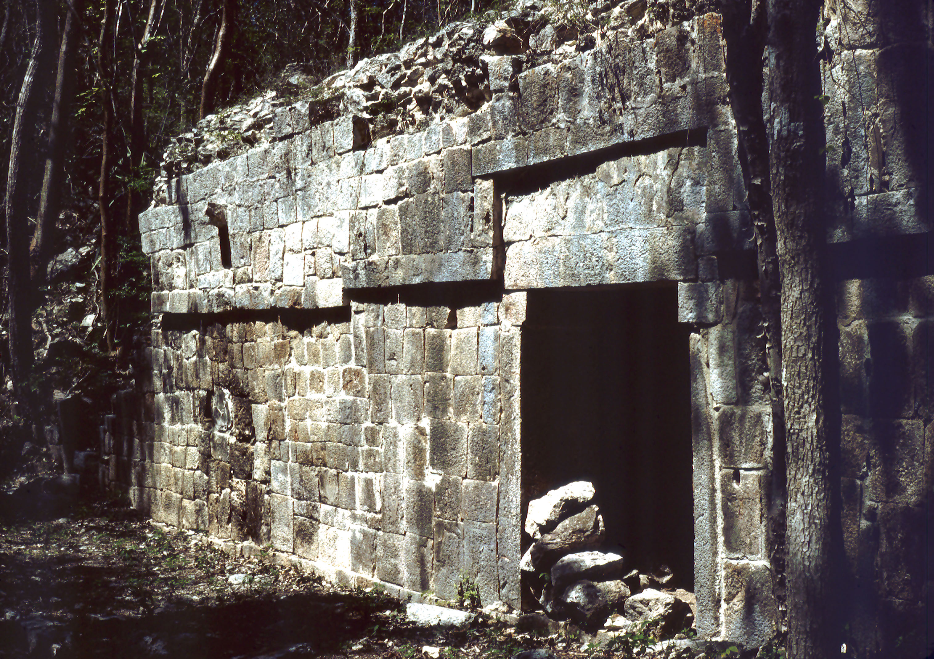 Kivik, Yucatan, Mexico: Group 1 building 4, south wing, east side.